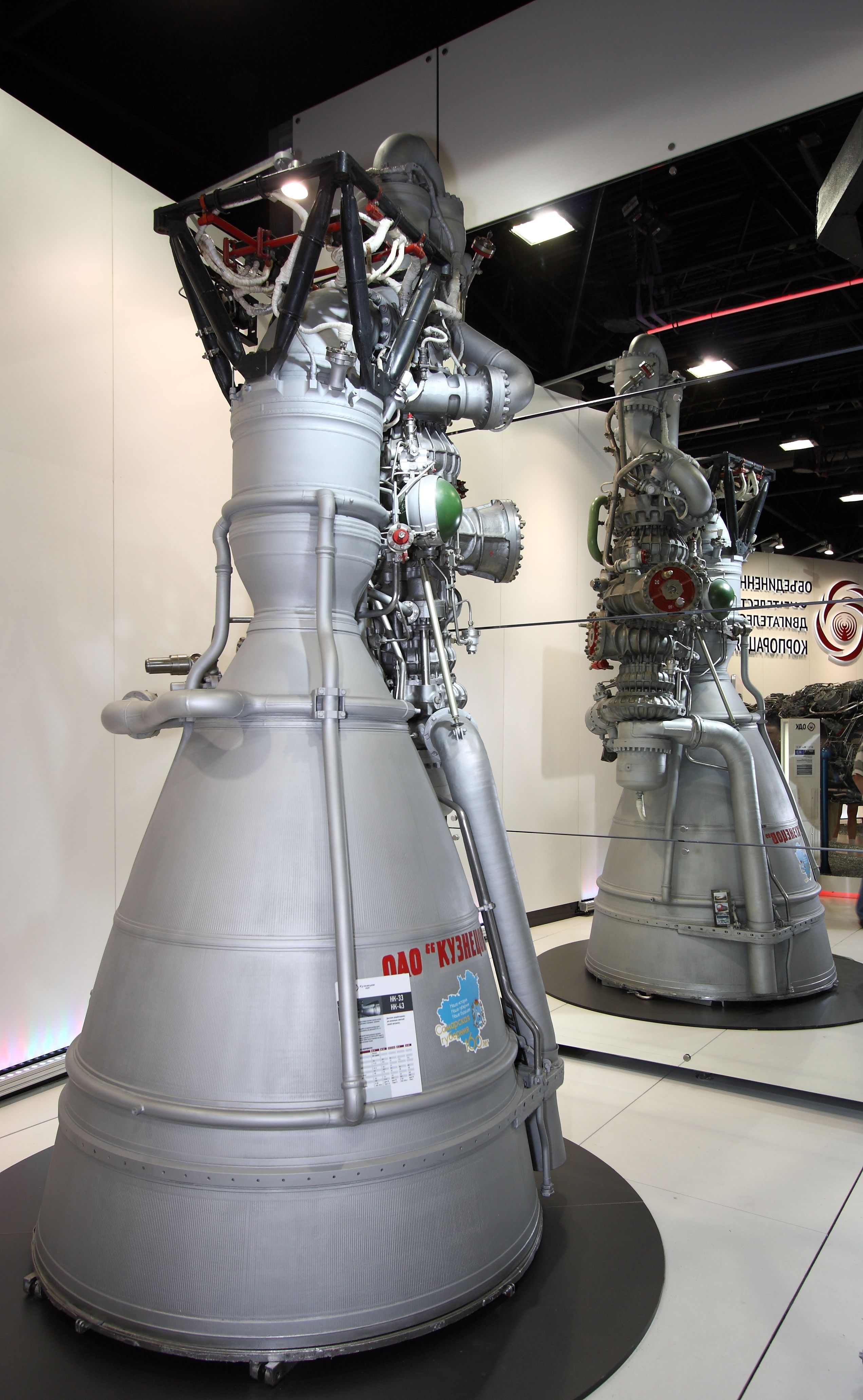 Liquid-propellant rocket engine NK-33/43(The international aerospace salon MAKS-2011)